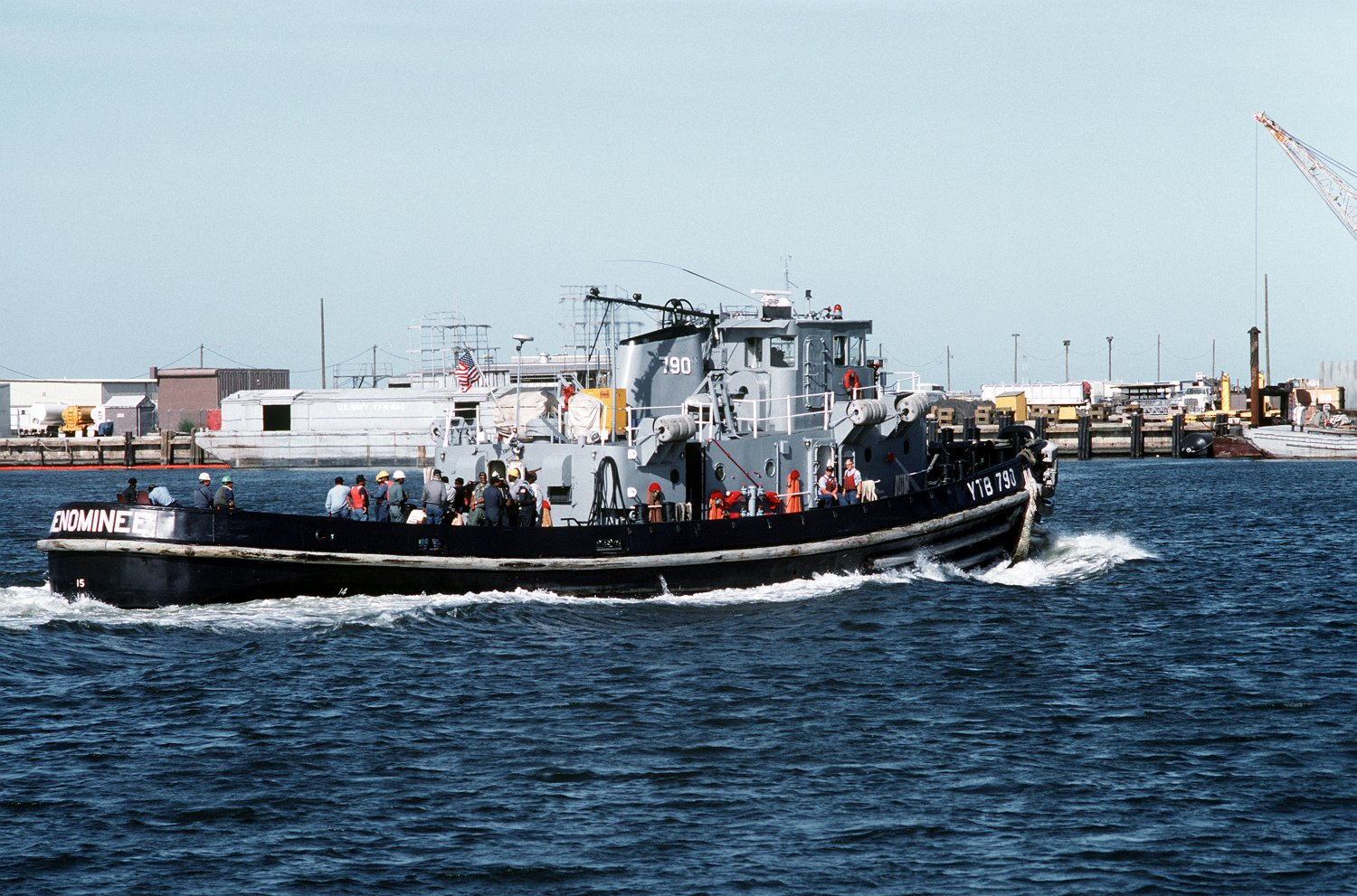 Menominee (YTB-790) underway off Naval Air Station Norfolk, 16 June 1992. DVIC photo # DN-ST-92-09703, by PH3 Todd Summerlin, a US Navy photo now in the collections of the Defense Visual Information Center. .